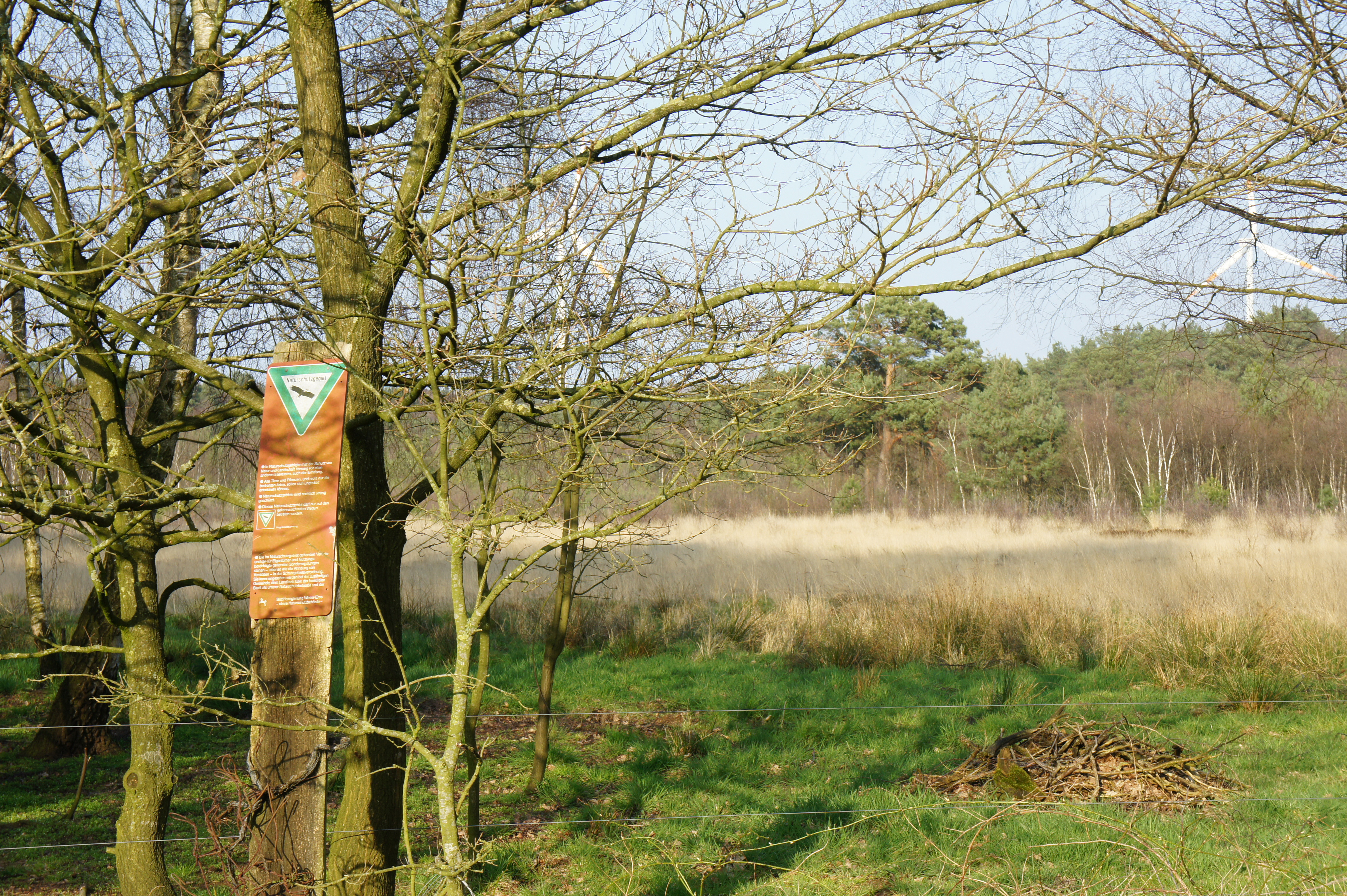 Looking at the Wunderburger Moor, Lower Saxony